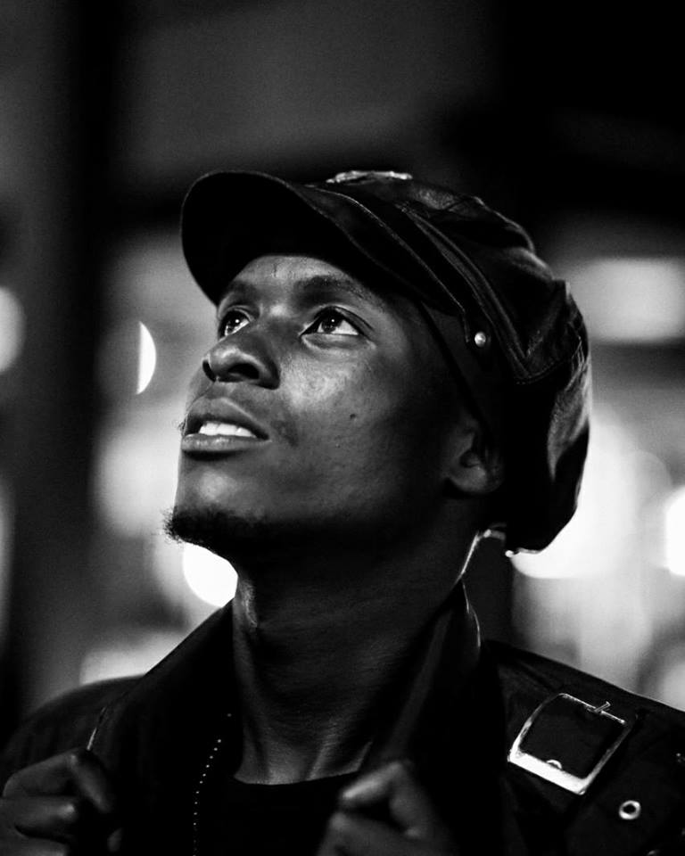 Poet Teardrops Portrait